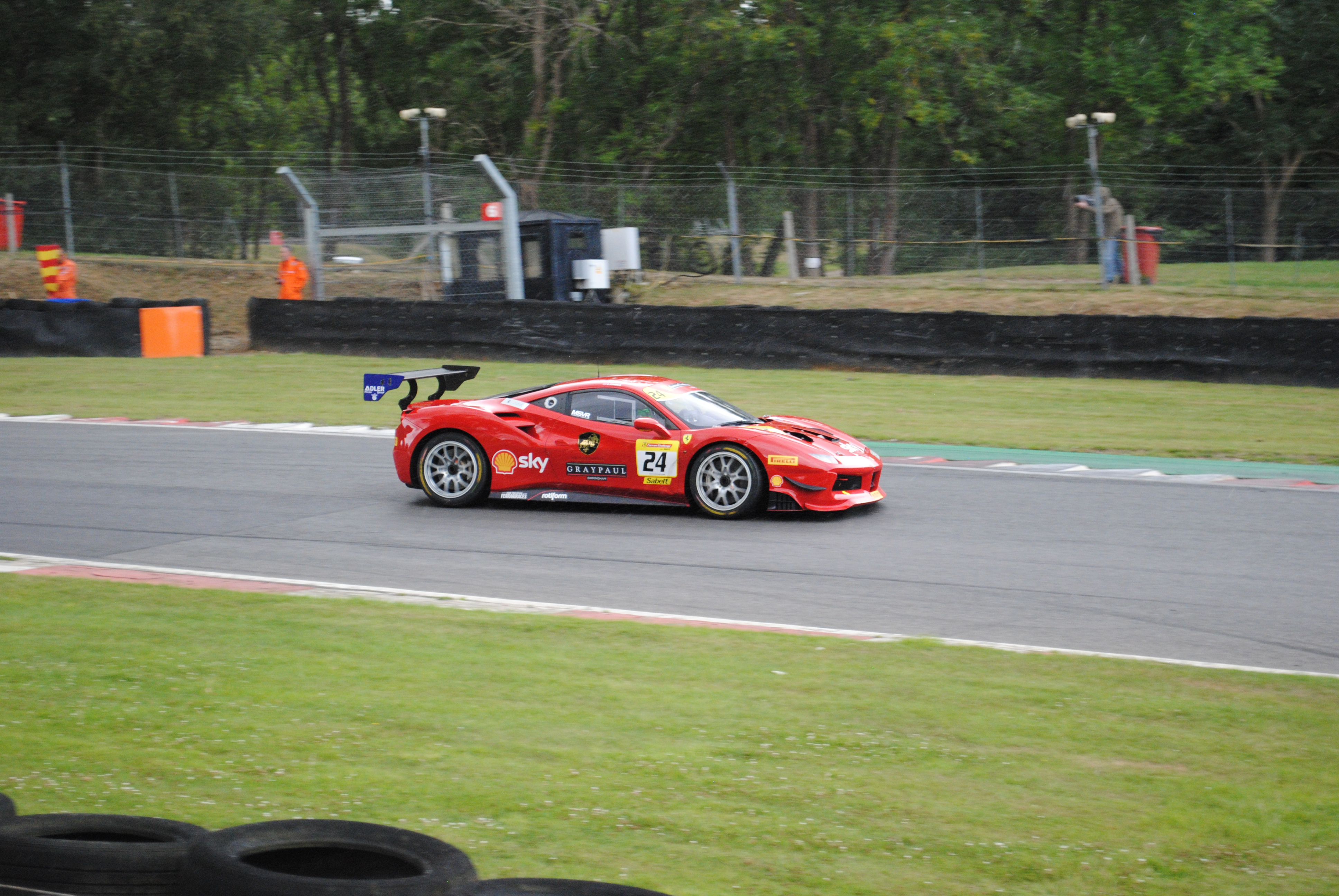 Lucky Khera competing in Ferrari Challenge UK at Brands Hatch.